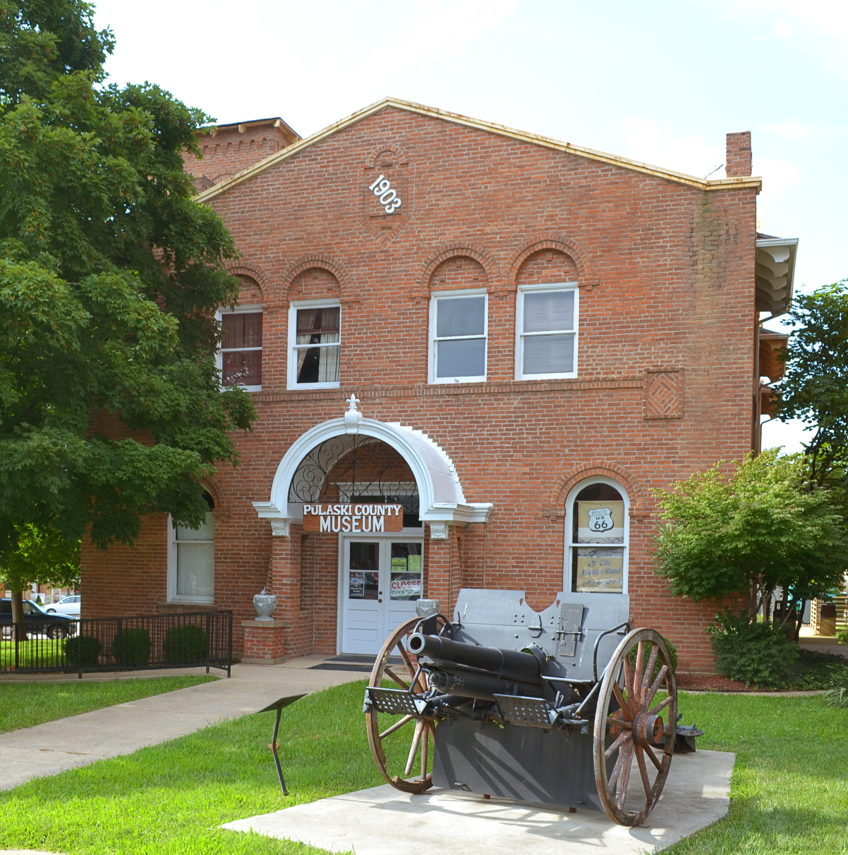 The former county courthouse of Pulaski County, Missouri in Waynesvill, which is now a county museum.